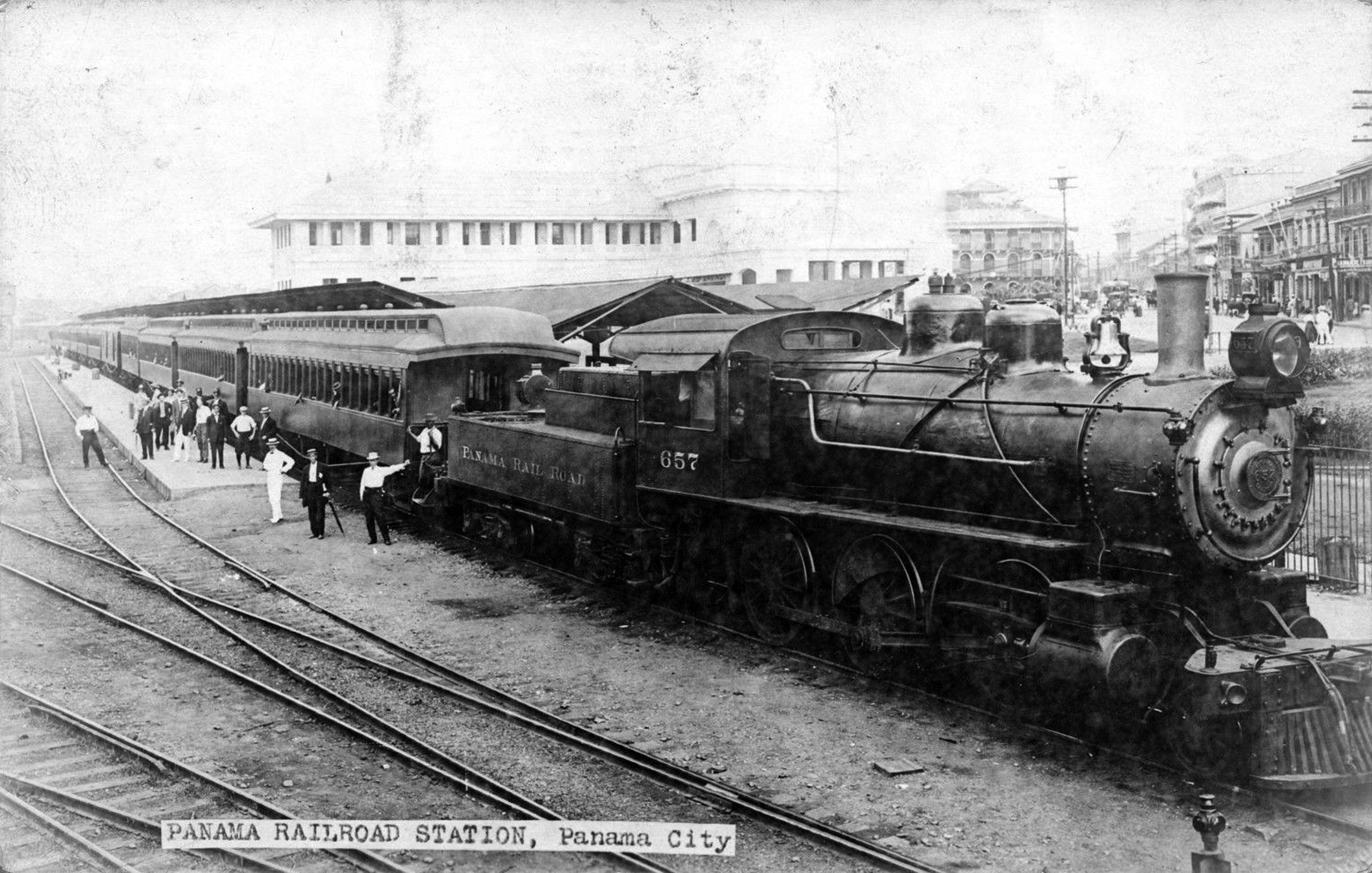 The Panama Railroad was 5ft gauge